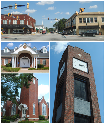 Photos I took around Simpsonville, SC